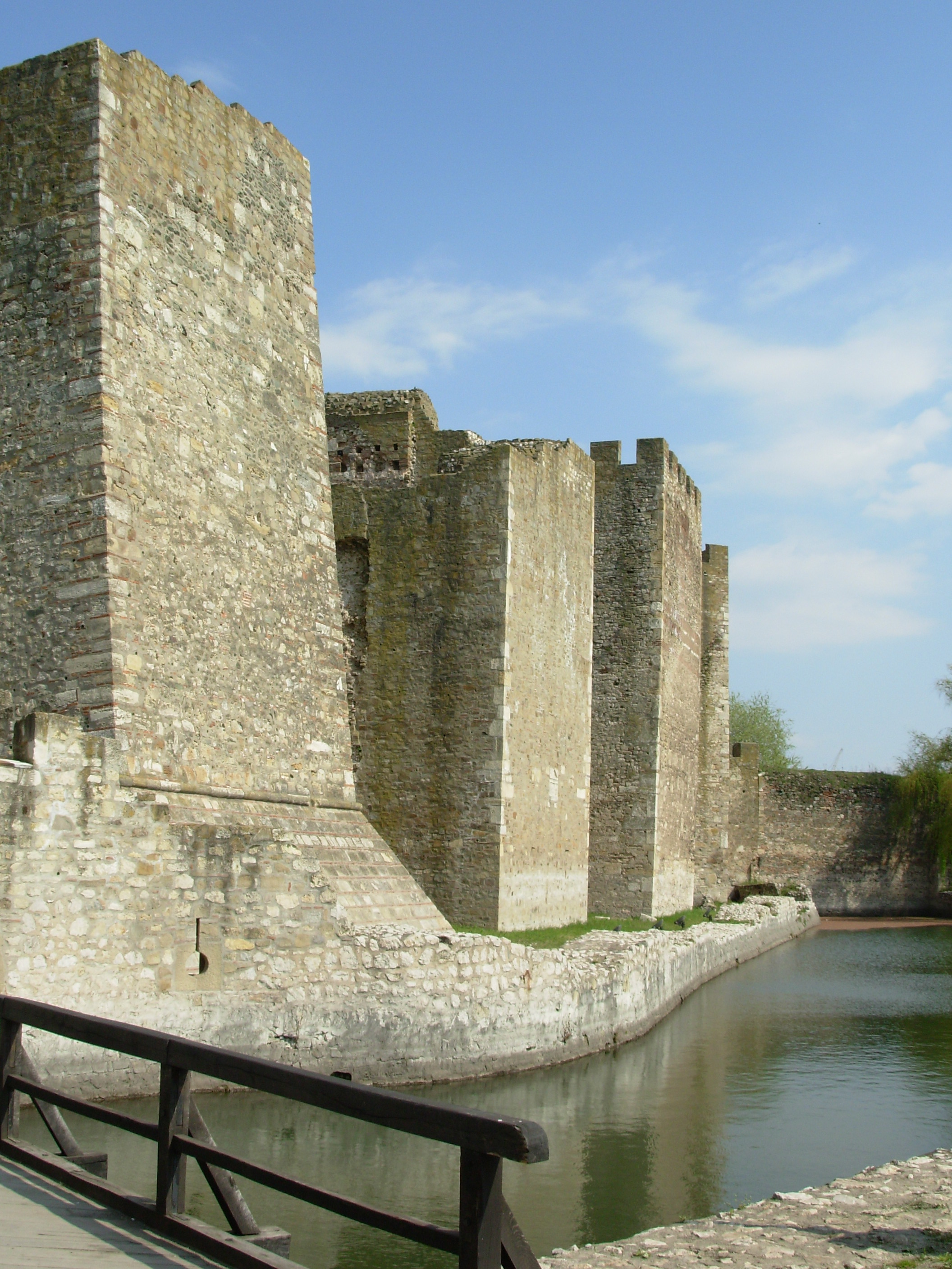 A view to the water trench and the small town walls in Smederevo Fortress.